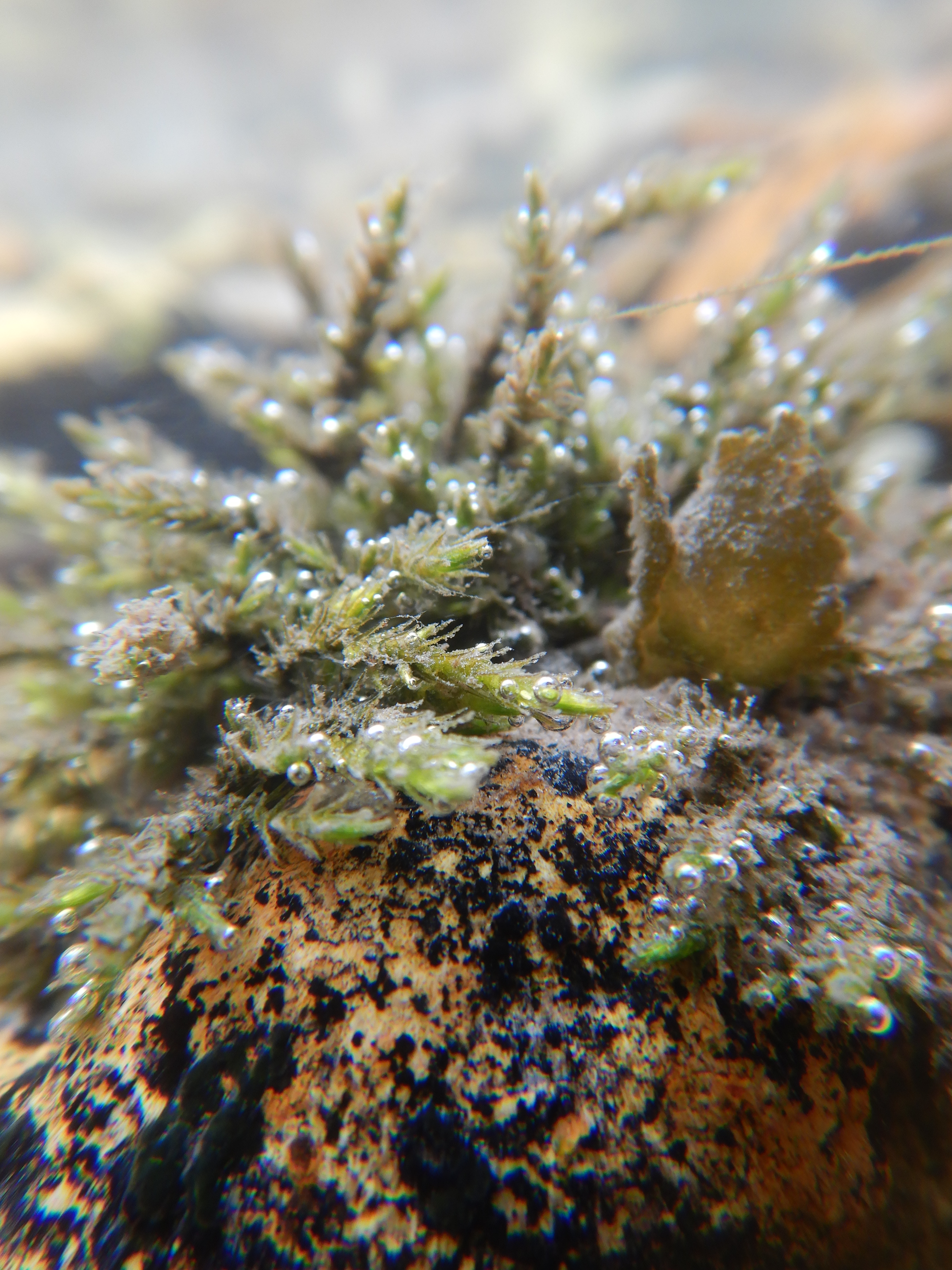 View of the "Embrienne river" in the "Embrienne valley", in the department "Pas-de-Calais", (Hauts-de-France region in northern France), in the "Seven Valleys". Photo made on the 10th of August 2017 (after two weeks unusually rainy for the region). The bottom of the river - where it is not silted up - is lined with pieces flint. Some segments of the first half of this watercourse shows pollution indices (bacteerial carpets and bacterial filtrates, lack of aquatic plants, low number of invertebrates) and others parts appear to be very clean (but with few fish and few visible animal organisms). Note: Locally, what appears to be large (up to 10 cm) subaquatic Nostoc bacterial colonies are visible (assemblages of cyanobacteria with photosynthetic capabilities) ; perhaps Nostoc verrucosum ?